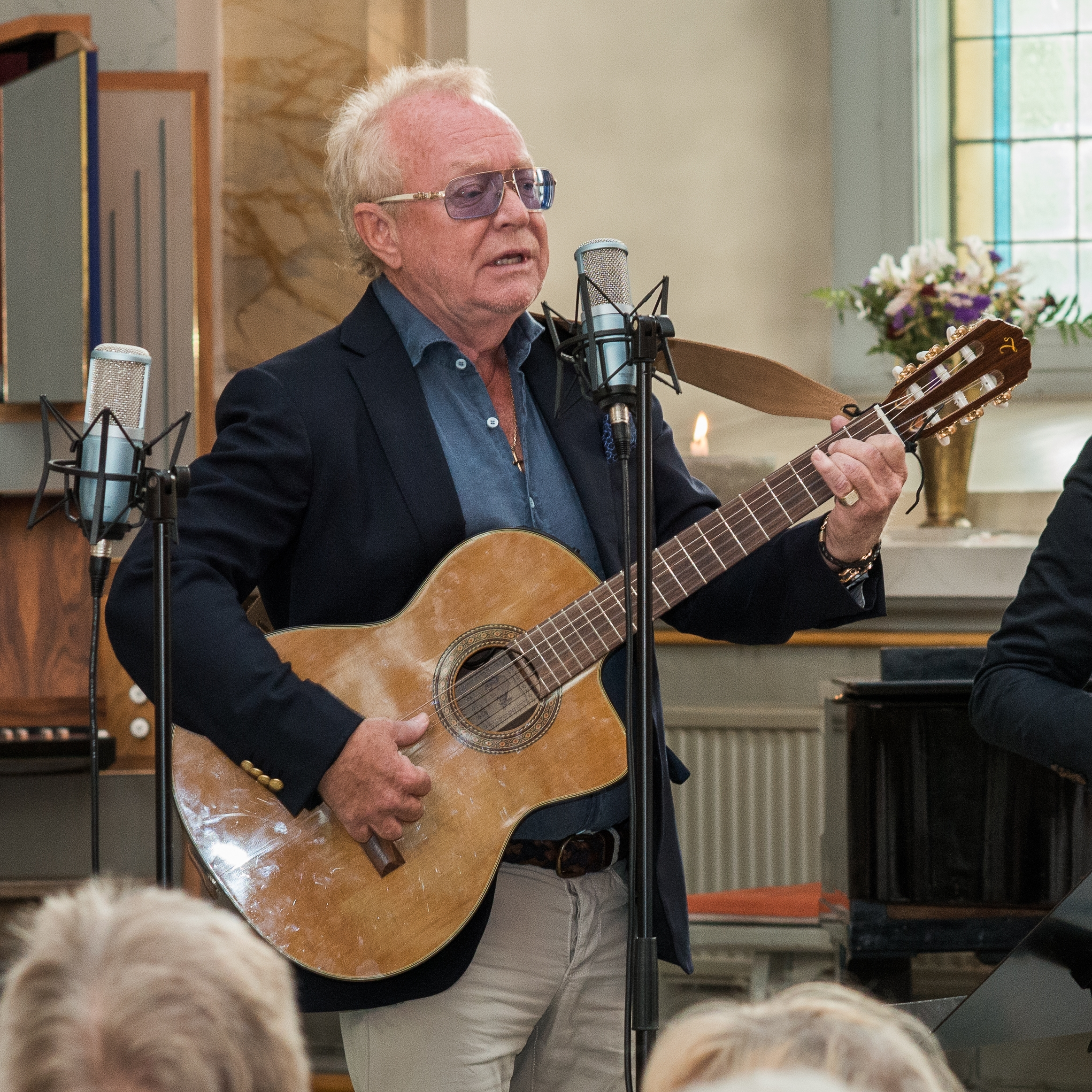 Björn Johansson in Vaxholm June 2014